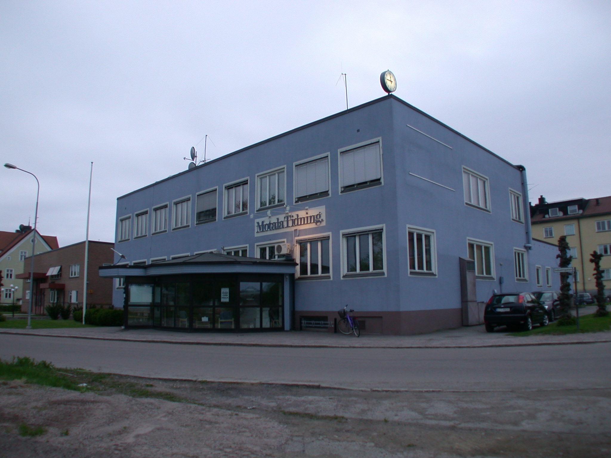 The office and printing works of the newspaper Motala Tidning, Motala, Sweden.